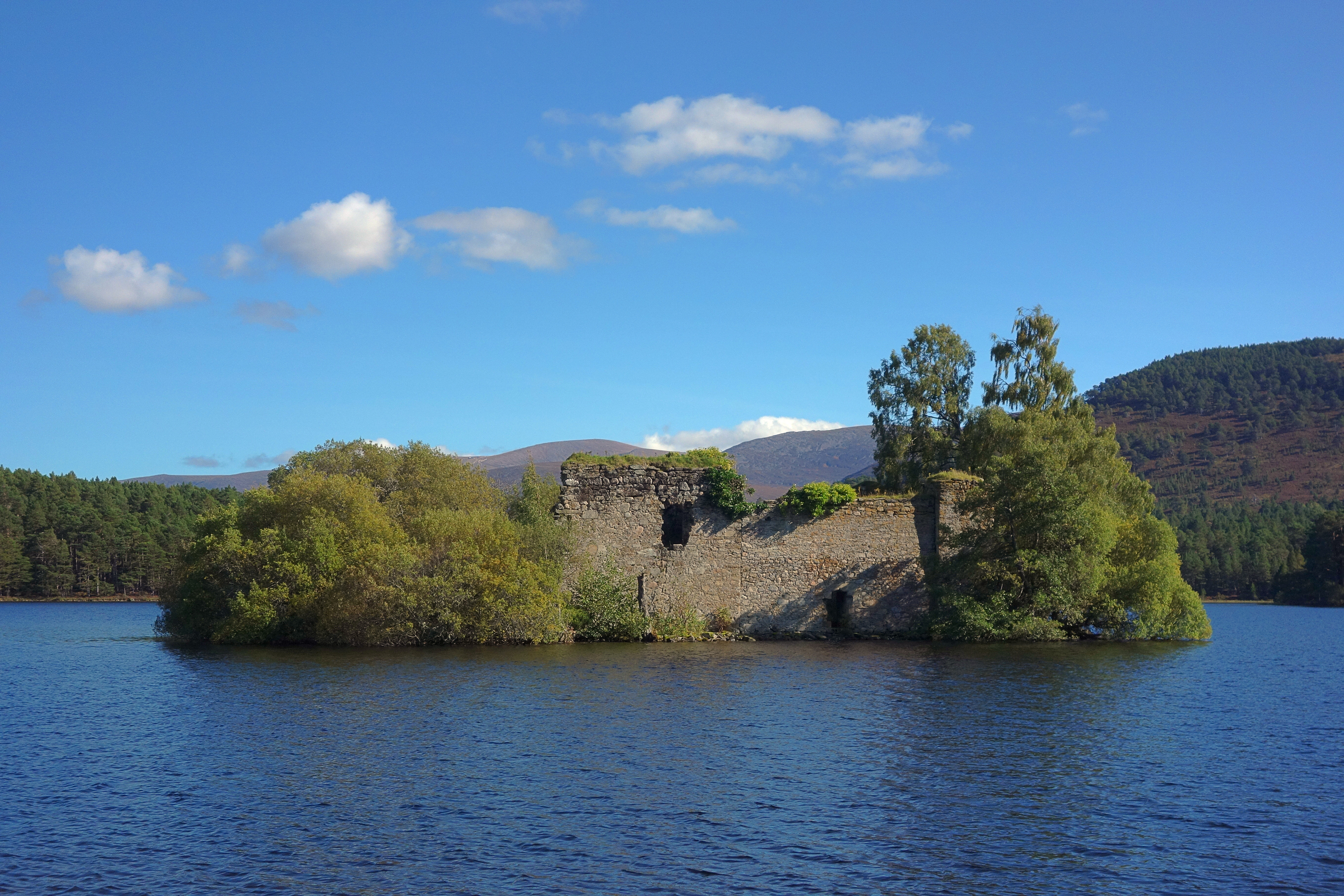 Loch an Eilein Castle in the Scottish Highlands from the shore of Loch an Eilein